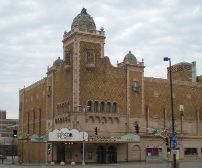 The Astro Theater Omaha